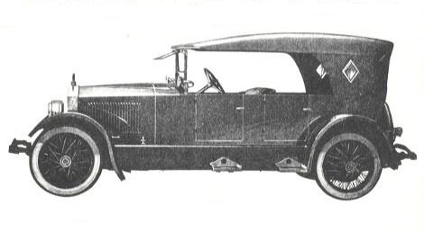 Illustration of 1921 Kenworthy 8-90 "Line-O-Eight" 5-passenger Touring automobile. Cropped from advertisemen. This was the first American car with 4 wheel brakes in the U.S. market, together with the Duesenberg Model A. The make was short-lived.